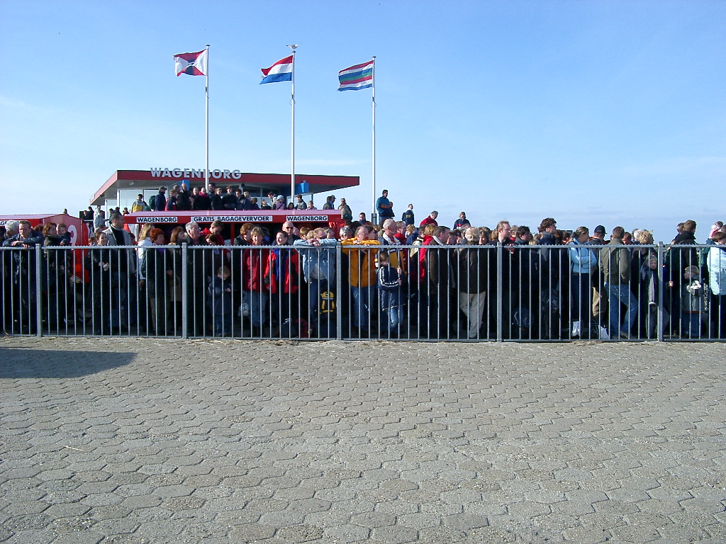 Terminal for the Wagenborg - Schiermonnikoog ferry.